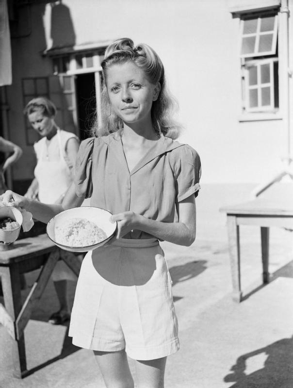 An emaciated internee, Miss Wendy Rossini, at Stanley Civil Internment Camp in Hong Kong, photographed after liberation in 1945 and showing the small quantity of rice and stew which served as rations for five people.